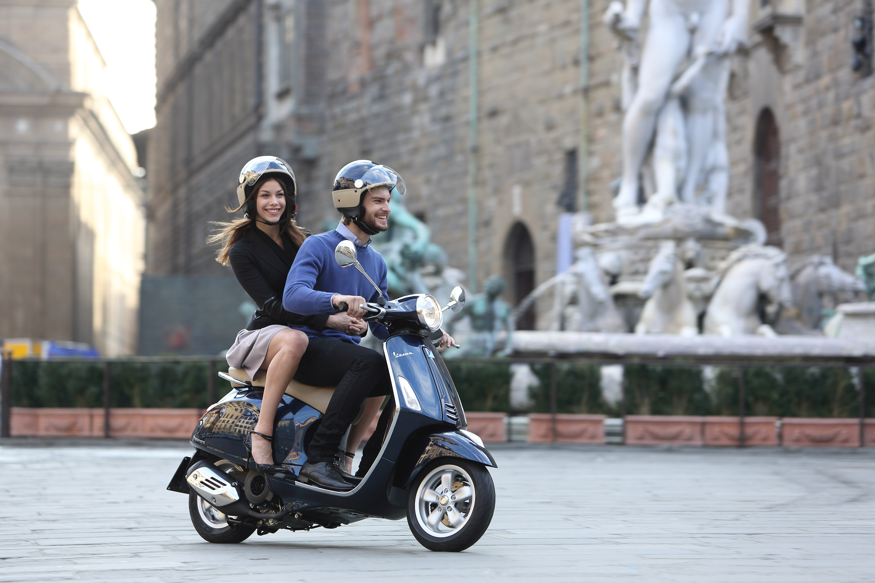 Vespa Primavera